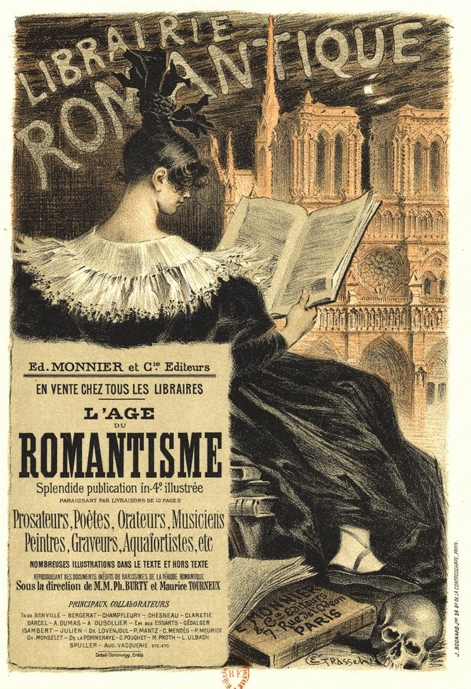 Poster by Grasset for a romances bookstore